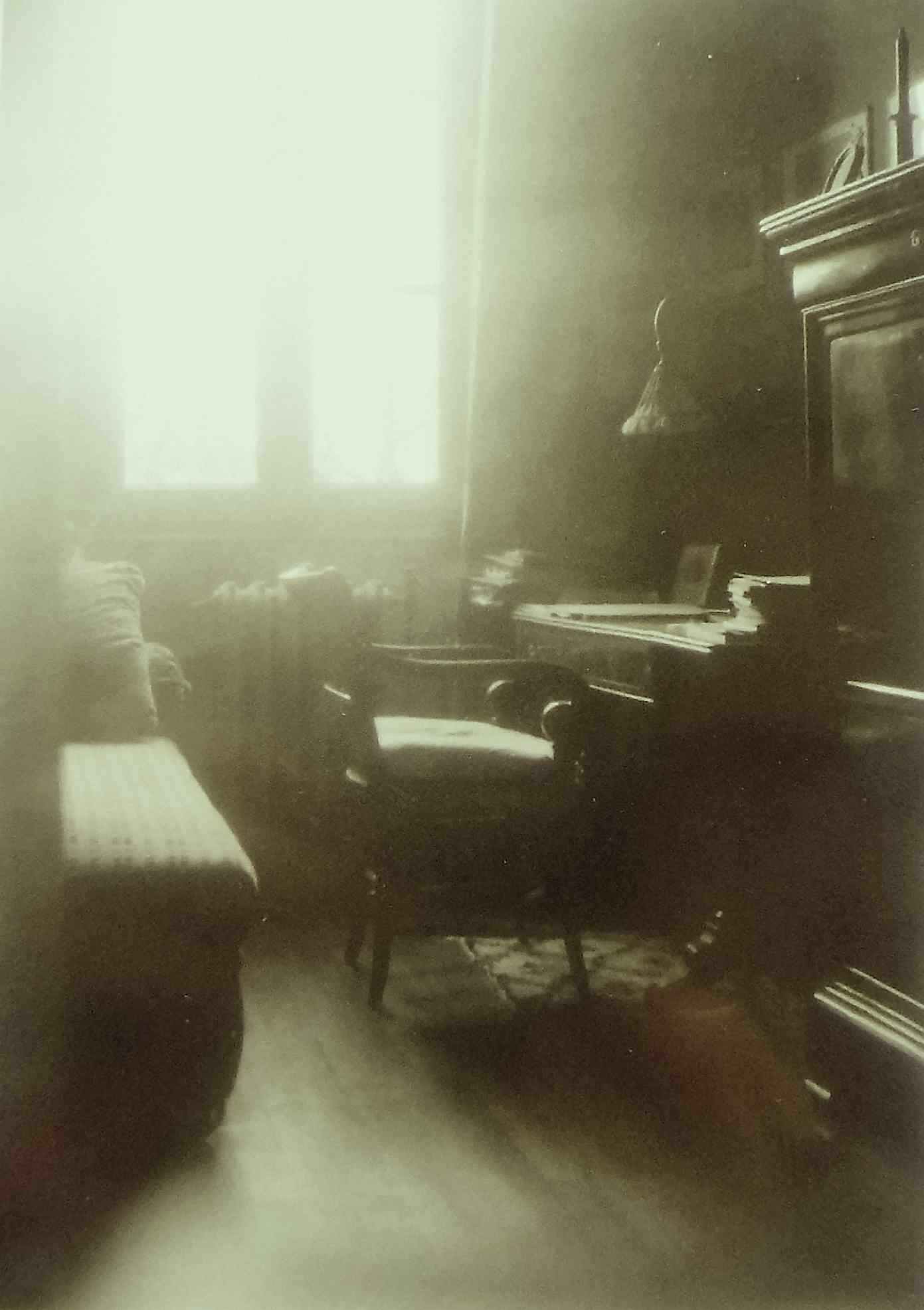 Malègue's workroom in Nantes where he ended to write Augustin and where he began Pierres noires